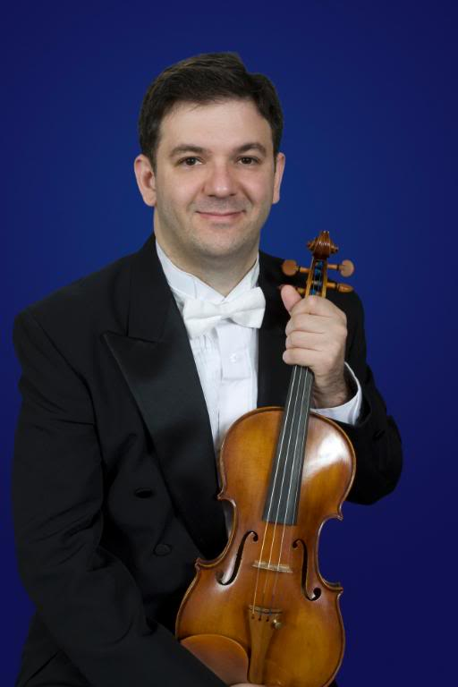 Selim Giray's picture with his violin